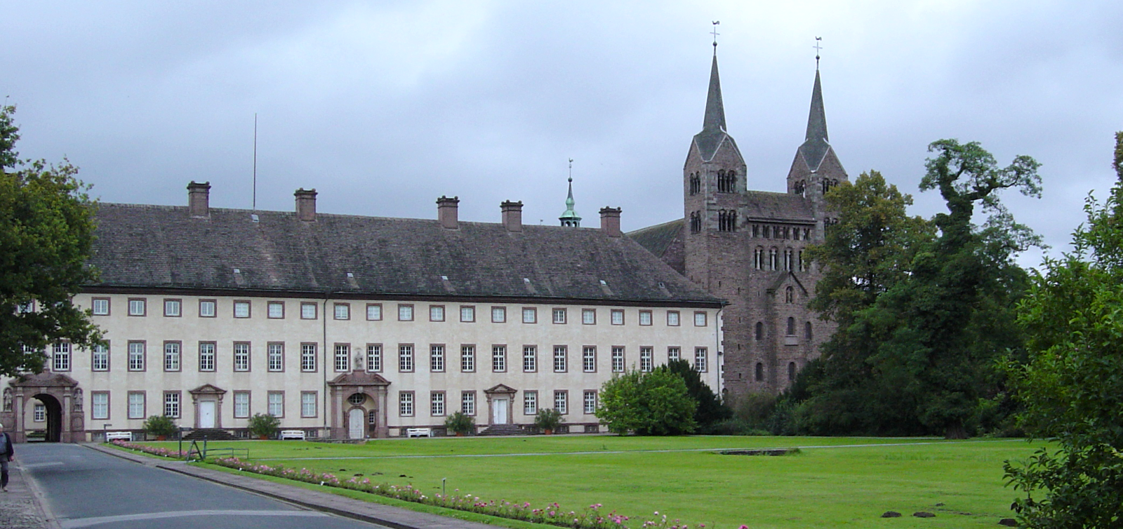 Corvey Abbey with Westwork near Höxter, Germany